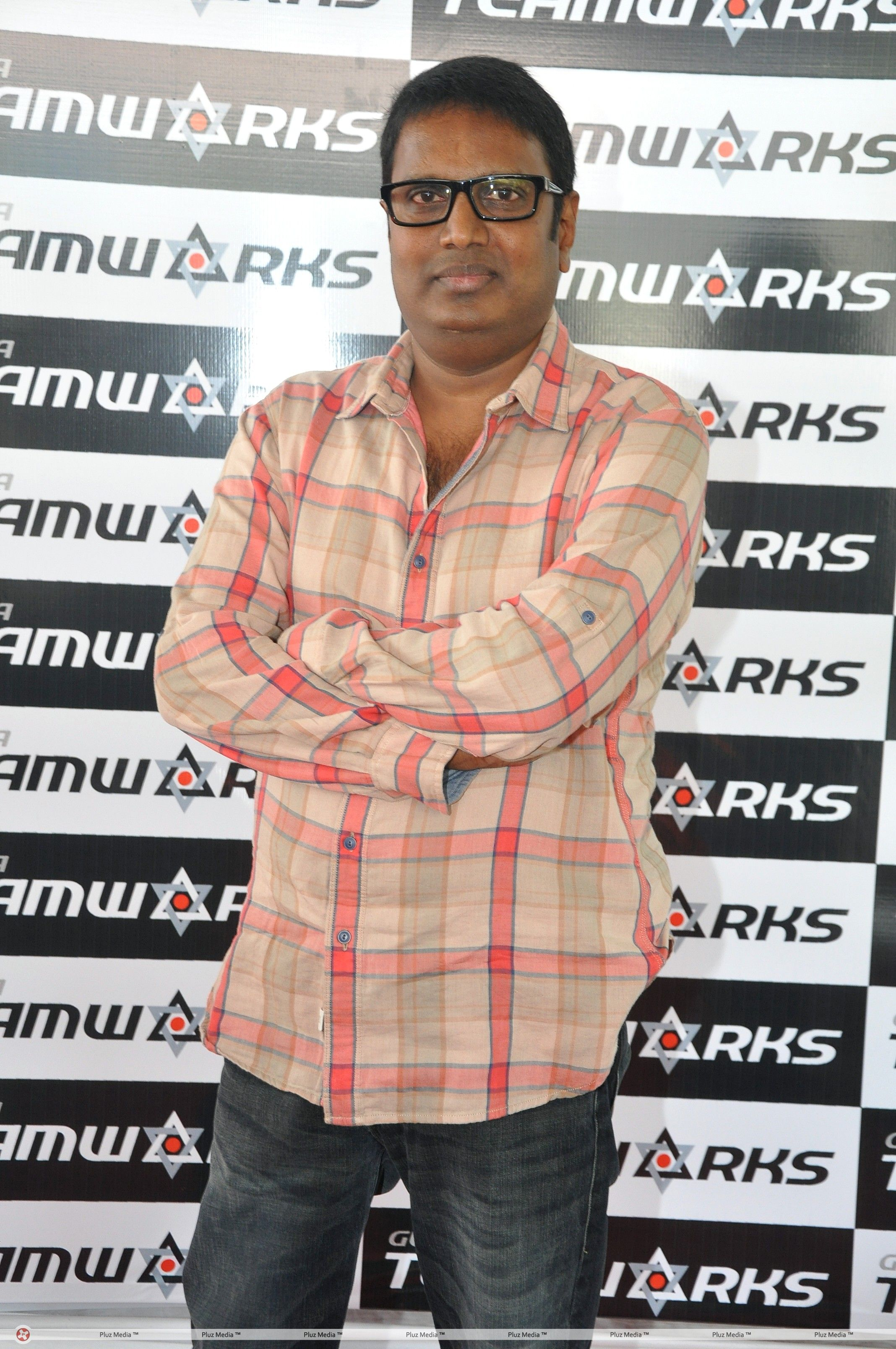 gunasekhar